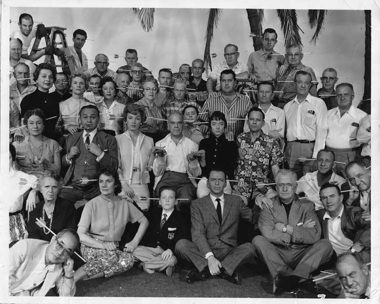 Cast and crew on the set of A Hole in the Head, MGM Studios, directed by Frank Capra.